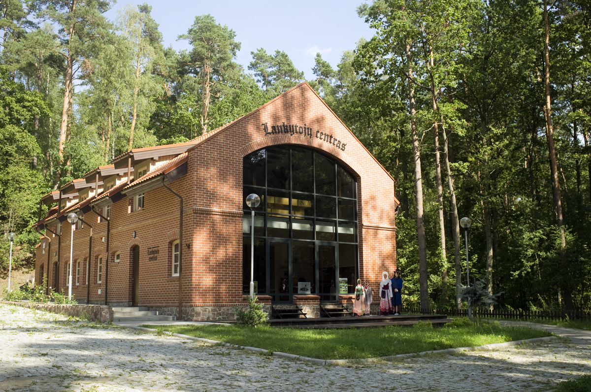 Rambynas Visitor Centre main view